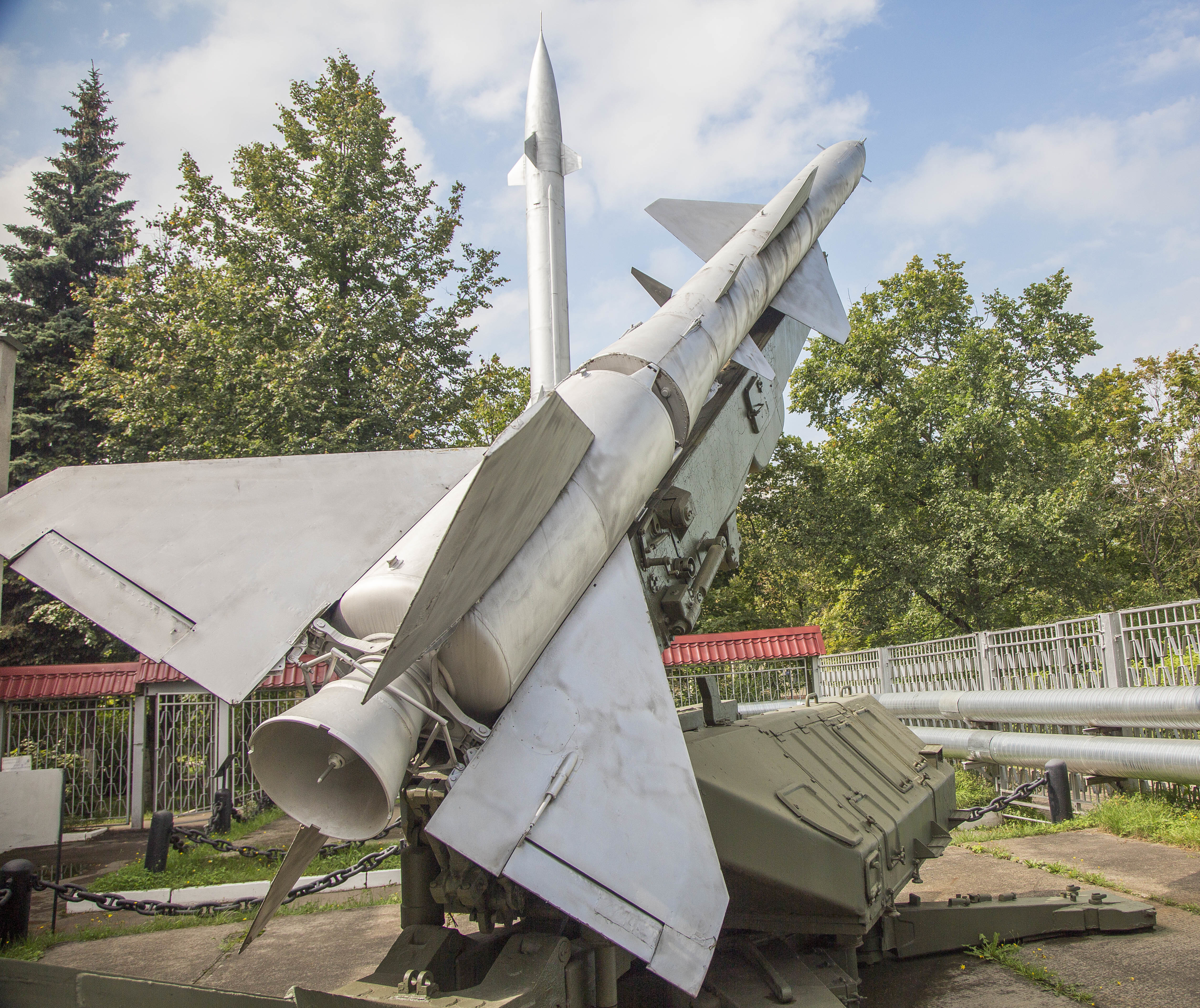 The C-75 (SA-2) SAM launcher used to shoot down Francis Gary Powers' U2 over the Urals in Soviet Russia, May 1st 1960 (with replacement unarmed missile in place). The launcher is adorned with a plaque commemorating its role in the U2 incident. The launcher is on display at the Air Defence Forces Museum, Balachinka district, Zarya village, 6 Lenin Street.